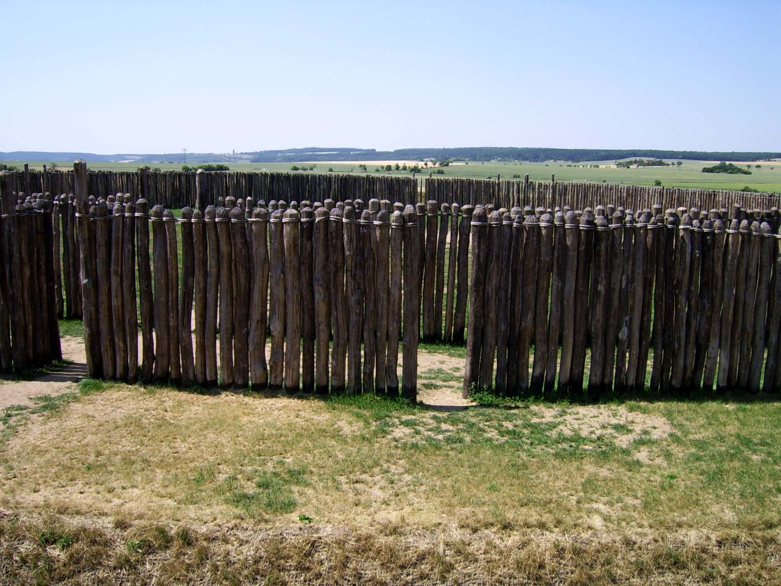 Goseck Enclosure/ Woodhenge, erected 7000 years ago